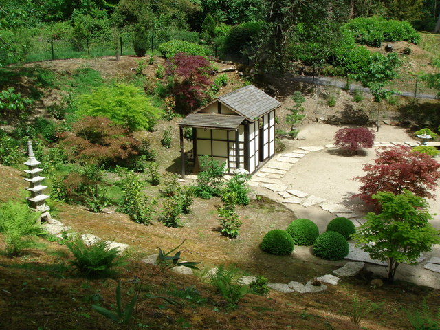 Kingston Lacy Japanese Tea Garden